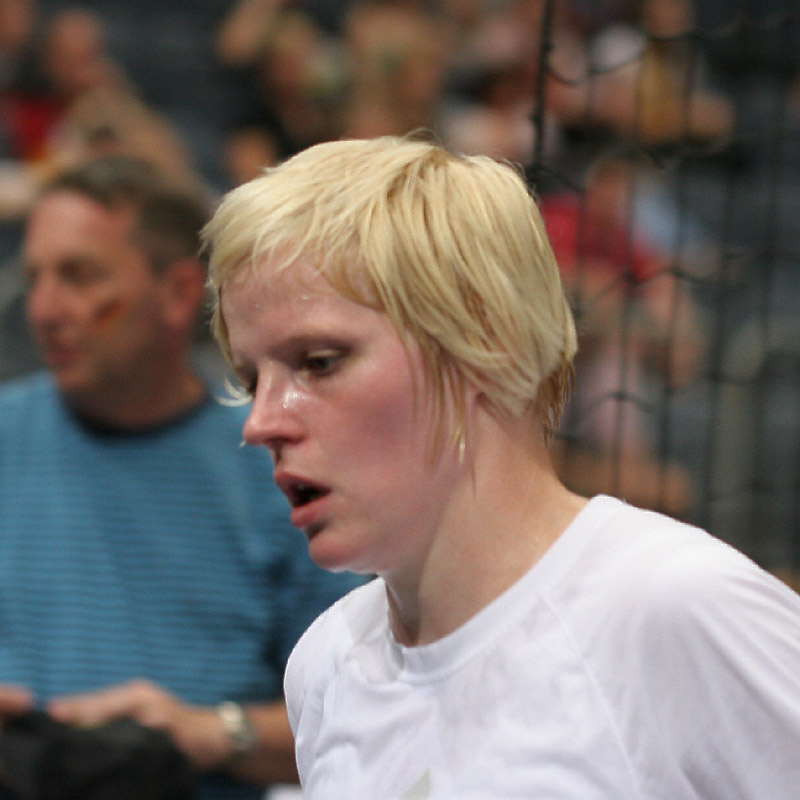 Clara Woltering, German handball player, prior the cap Germany vers. Angola on July 26th 2008 in the Lanxess-Arena of Cologne